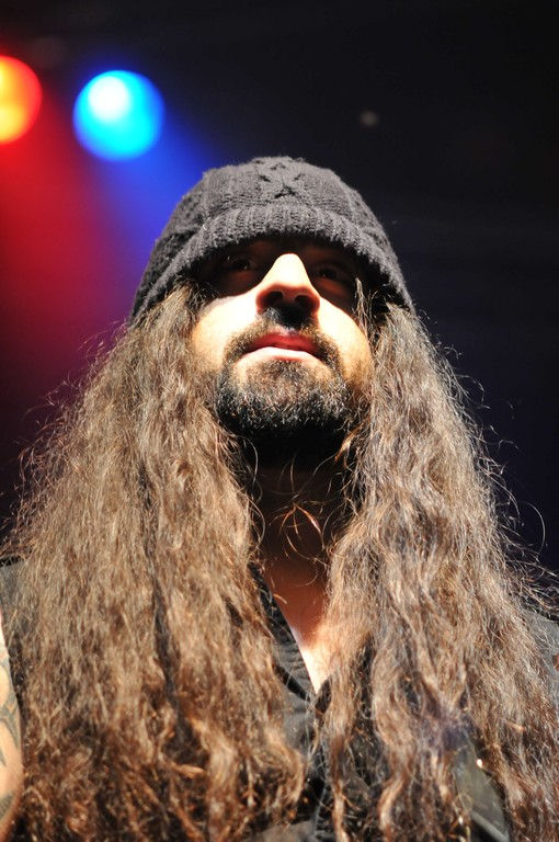 Rob Caggiano of Anthrax performing live at Hellfest Open Air (2009).